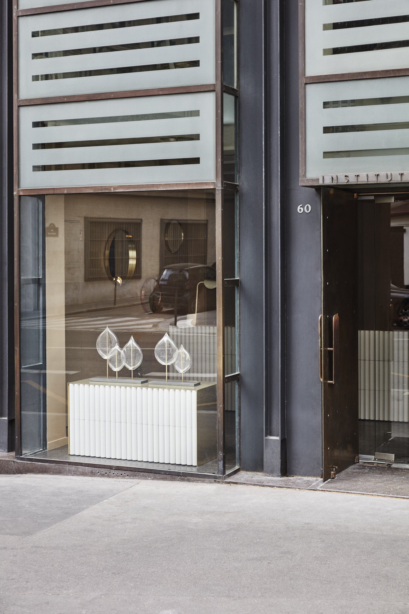 The facade of Institut finlandais. Photography by Mikko Ryhänen.